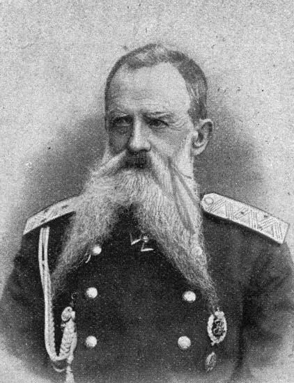 Feldman, Fyodor Aleksandrovich.